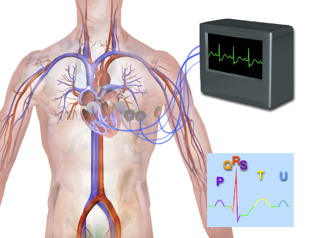 Electrocardiogram. See a full animation of this medical topic.